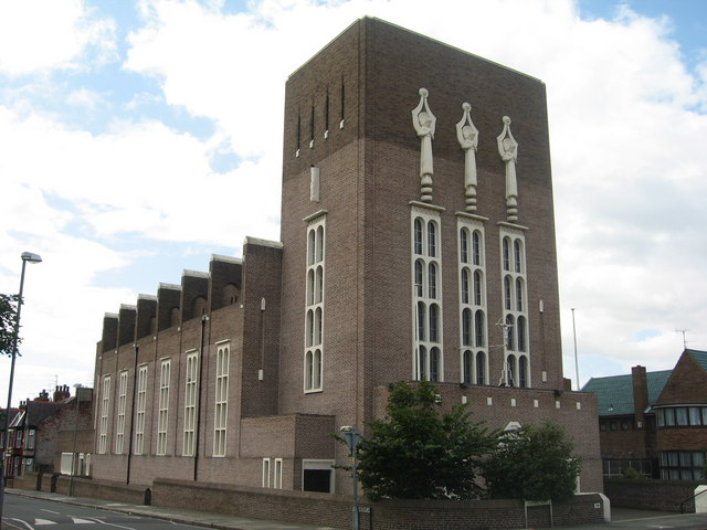 Church of St Monica, Fernhill Road St Monica's Rc church in Fernhill Road was completed in 1936. A Grade II listed building in art deco style designed by the architect Francis Xavier Velarde.